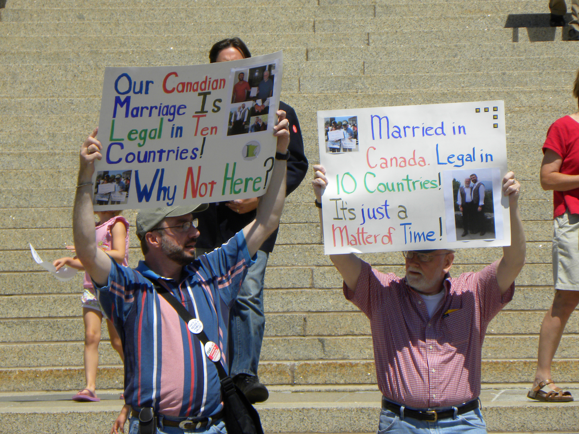 St. Paul, Minnesota July 28, 2010 People gathered in the St. Paul capitol building in support of equal rights for lesbian, gay, bisexual and transgender people including the right of same-sex couples to marry. Then they went outside to counter-protest the rally against same-sex marriage outside. Fibonacci Blue 2010-07-28